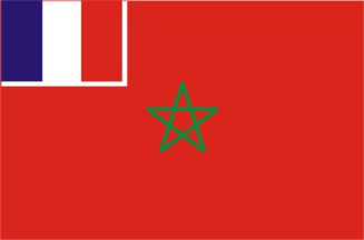 Civil ensign of the French Protectorate in Morocco